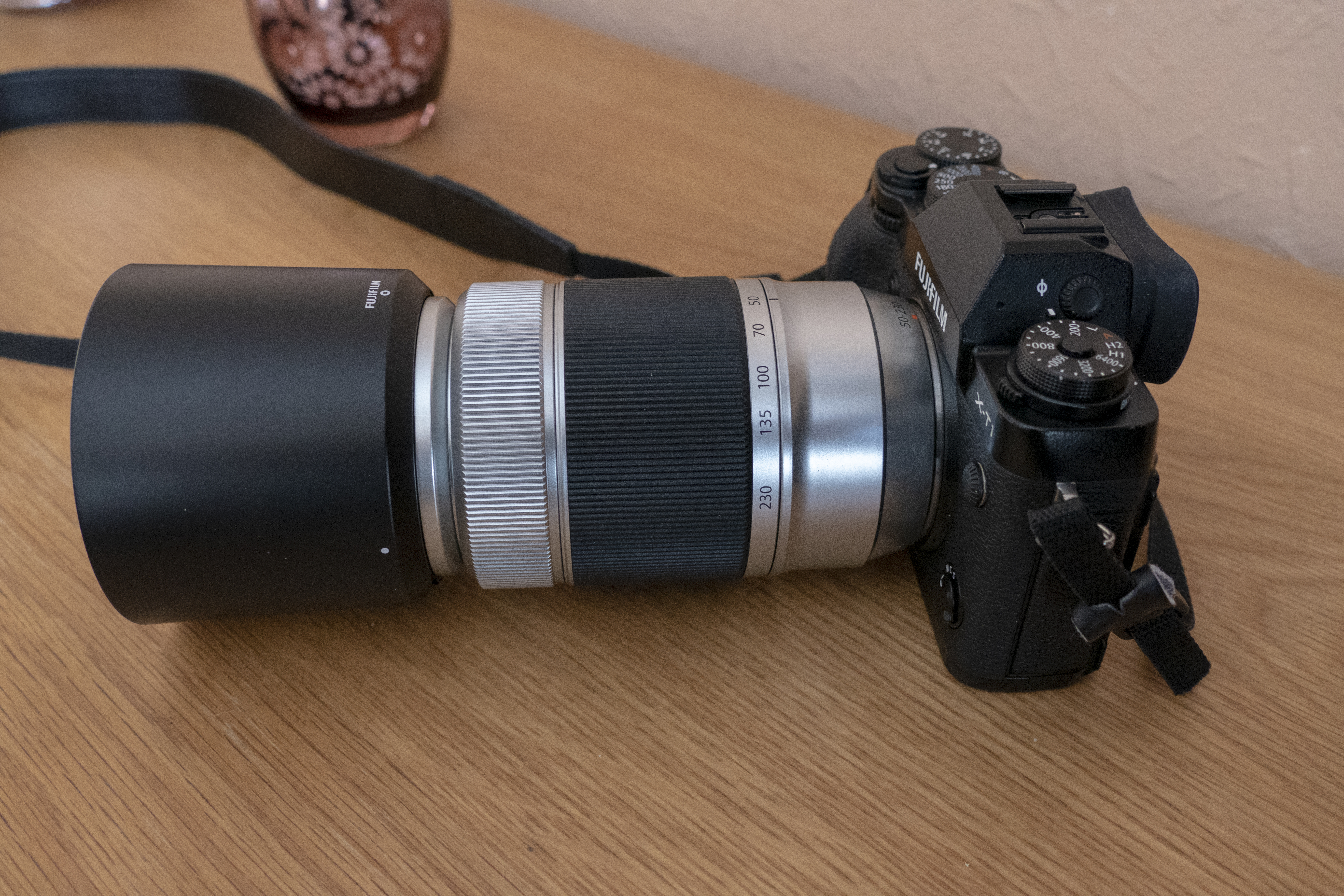 Fujifilm X-T1 with Fuji 50-230mm lens